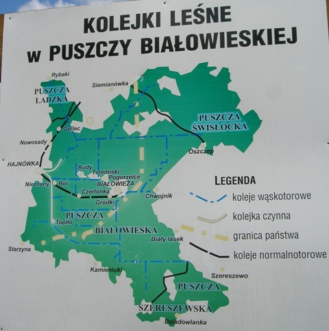 Map.